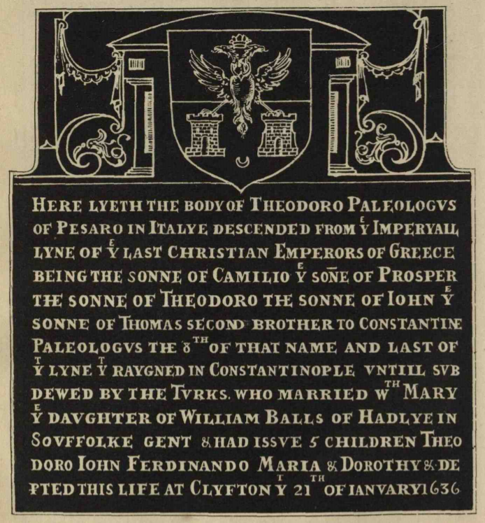 Rubbing of the tombstone of Theodore Paleologus in Landulph, Cornwall